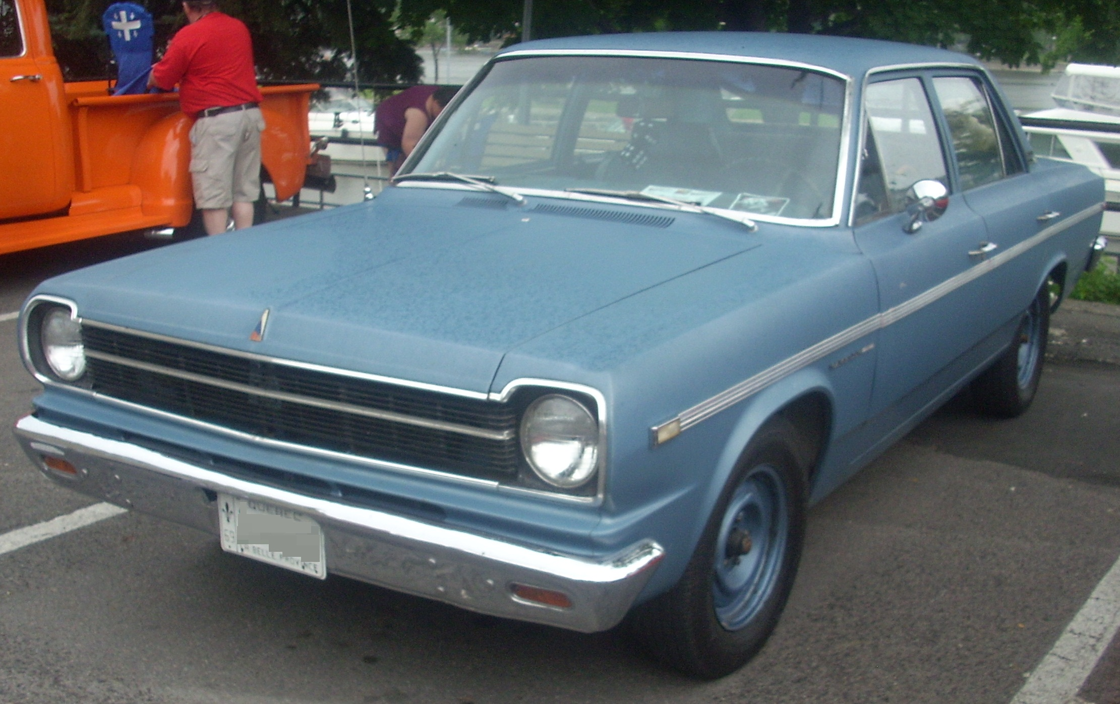 1969 Rambler American photographed in Ste. Anne De Bellevue, Quebec, Canada at Cruisin' At The Boardwalk 2010.